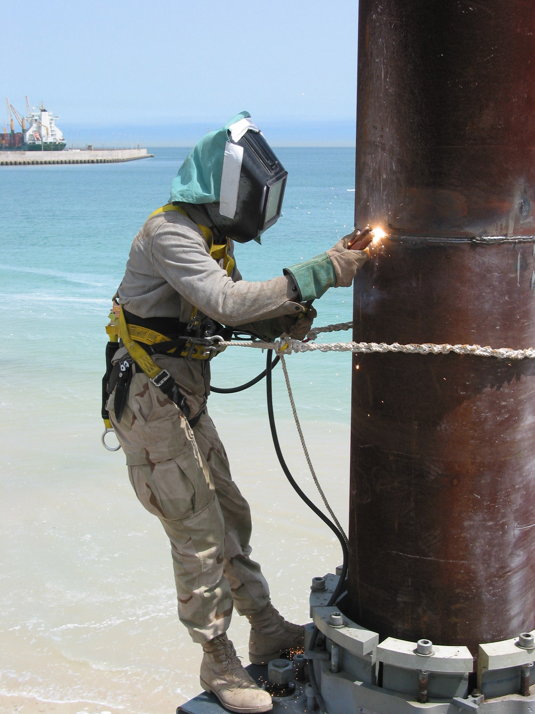 Camp Patriot, Kuwait (Apr. 2, 2003) -- Steelworker 3rd Class Jason Fontaine of Amphibious Construction Battalion Two (ACB-2) homeported in Little Creek, Va., welds a seam to connect a piece of pile to the upcoming Elevated Causeway System (ELCAS), a modular structure being built at Camp Patriot. The ELCAS, a joint ACB-1 and ACB-2 effort, will serve as an additional tool in the ongoing Combined Joint Logistics Over the Shore (CJLOTS) activities. CJLOTS allows the offload of supplies, equipment and ordnance from Army and Navy prepositioning ships, to reach the troops in a timelier manner. The Seabees are deployed in support of Operation Iraqi Freedom, the multi-national coalition effort to liberate the Iraqi people, eliminate Iraq's weapons of mass destruction, and end the regime of Saddam Hussein. U.S. Navy photo by Journalist 1st Class Joseph Krypel. (RELEASED)